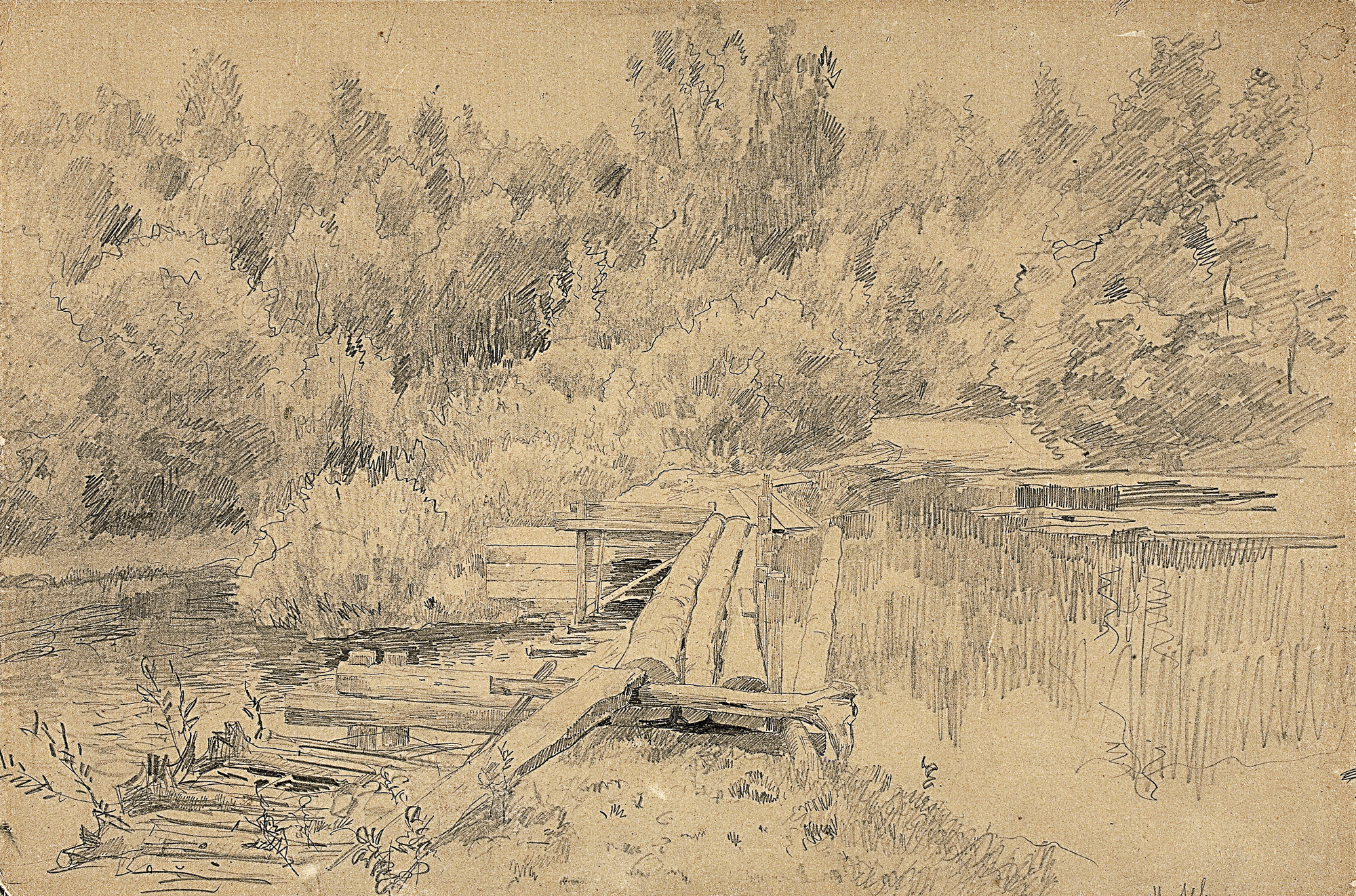 By the pool (pencil study by Isaac Levitan, 1891)